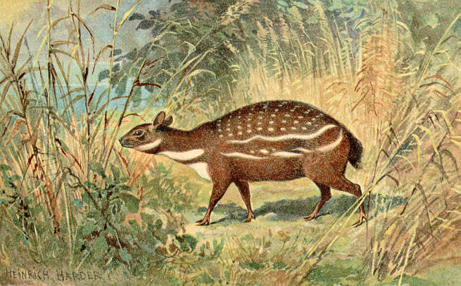 Dorcatherium